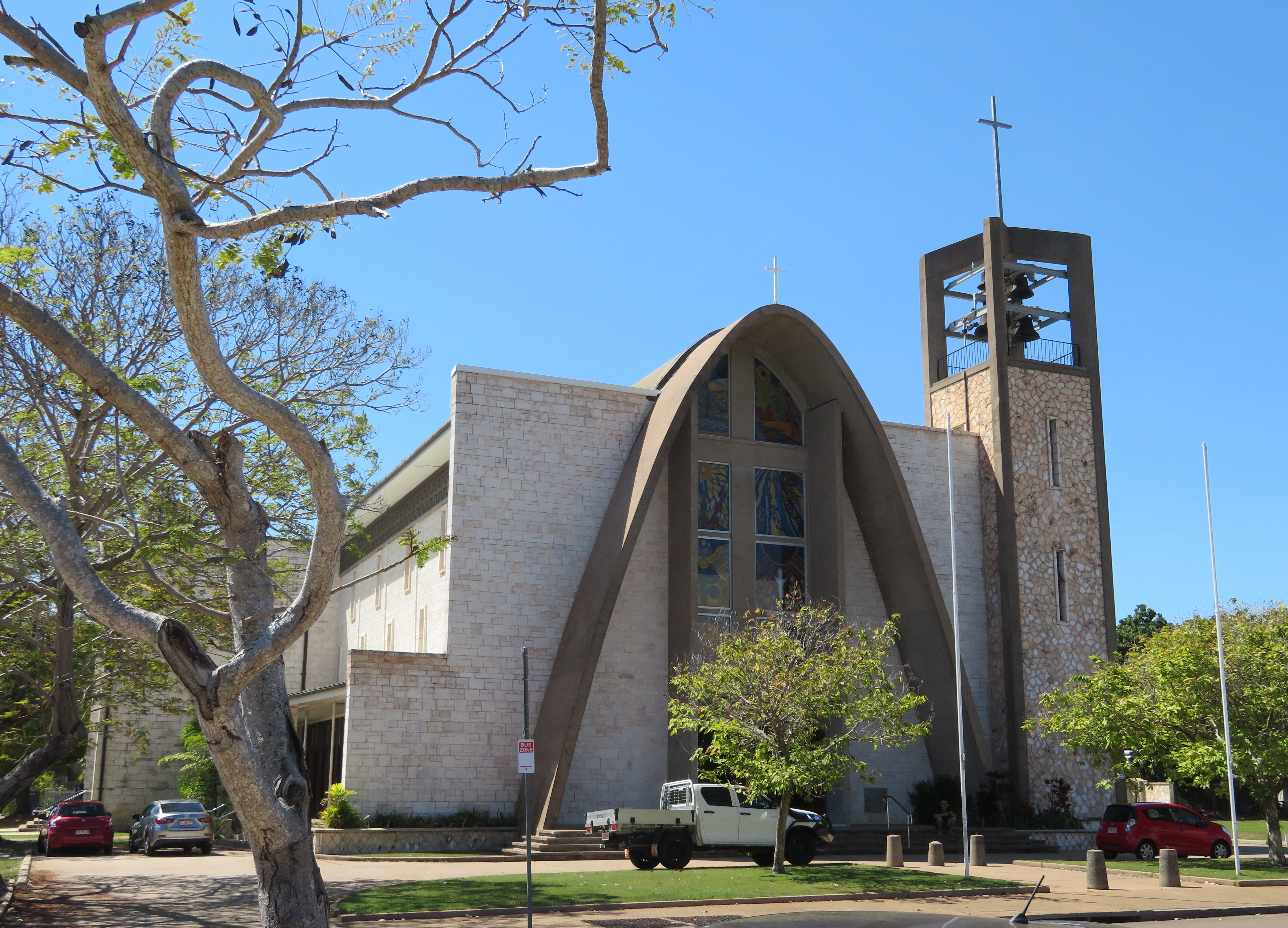 Darwin Catholic Cathedral